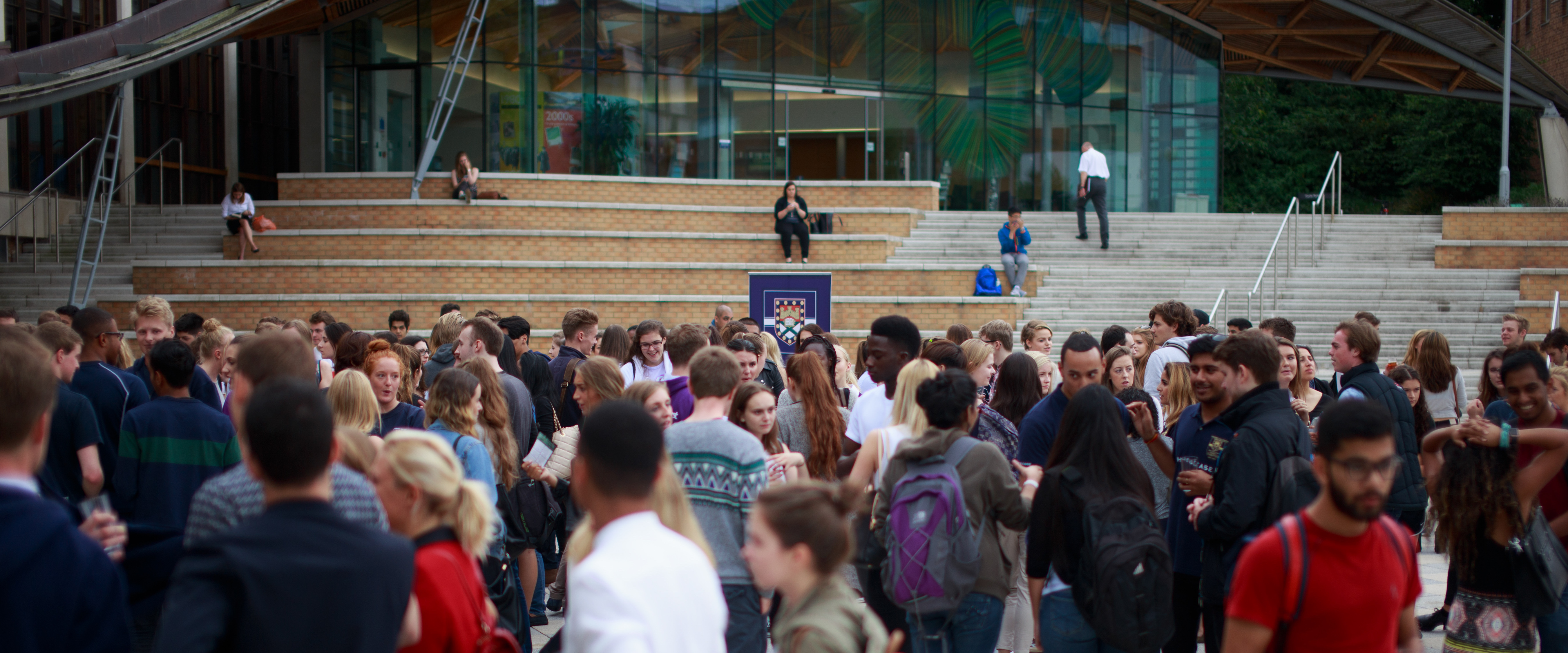 Bracton Law Society, the largest student society